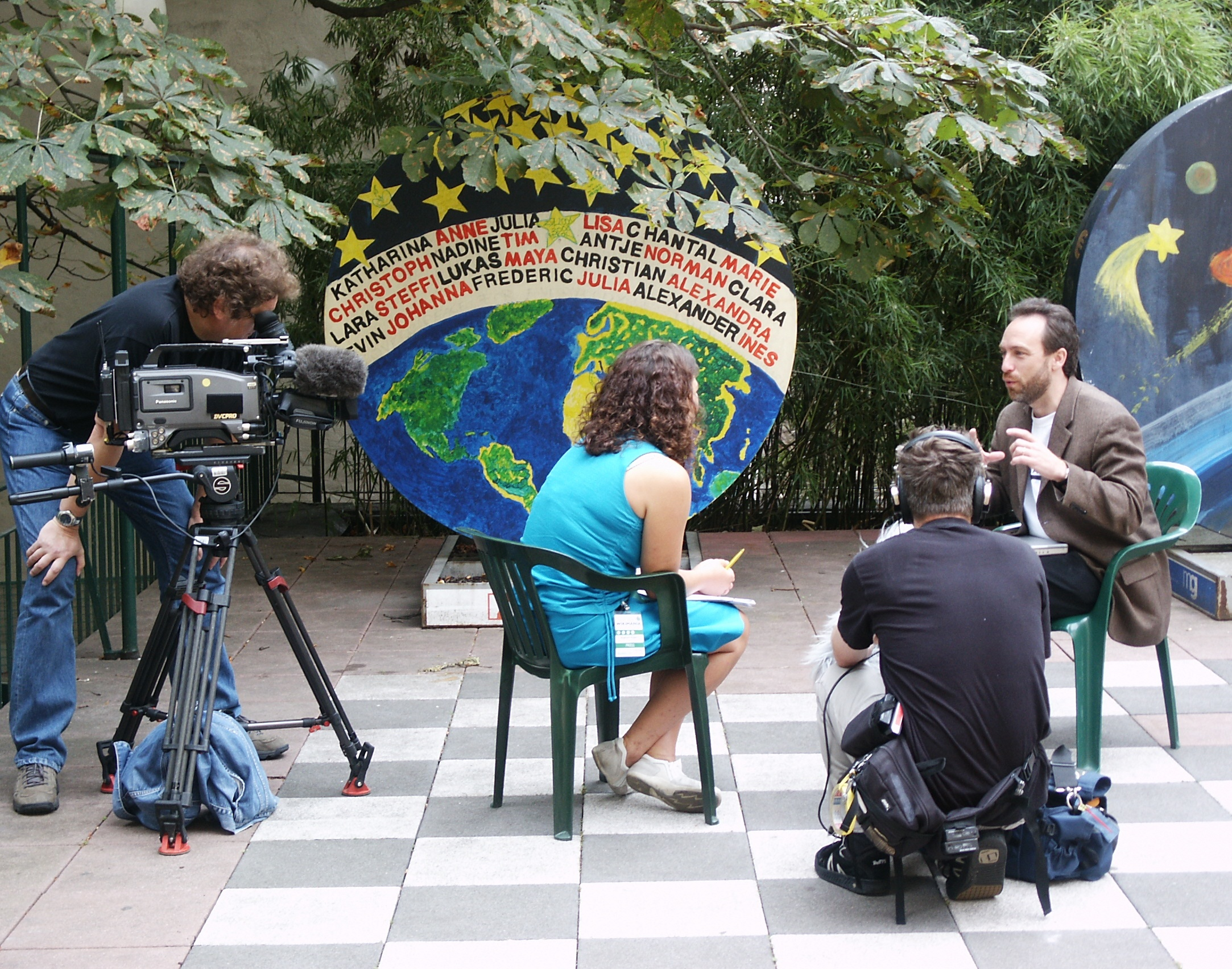 jimbo wales interview at wikimania